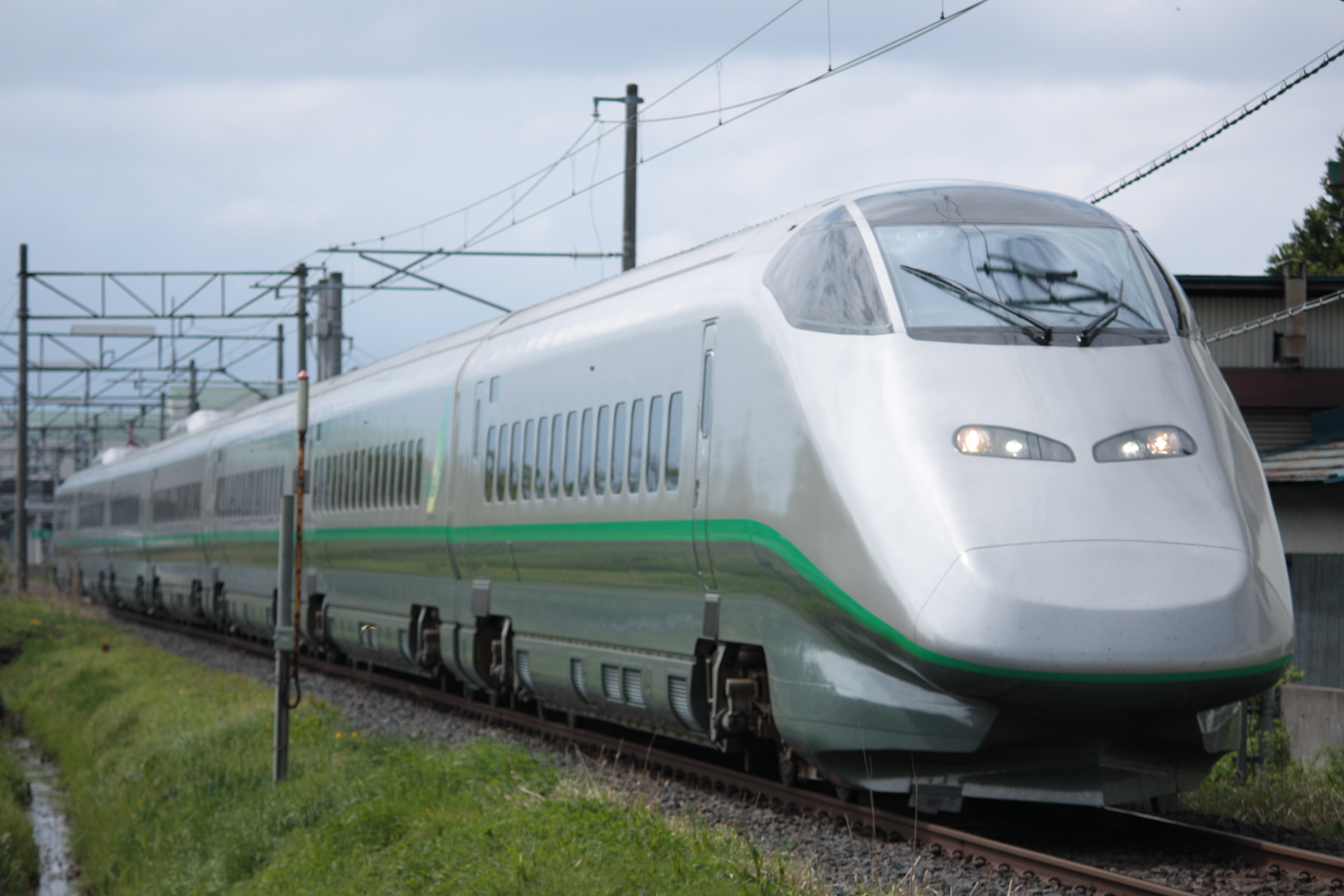 JR East E3-2000 series shinkansen set on a Yamagata Shinkansen Tsubasa service